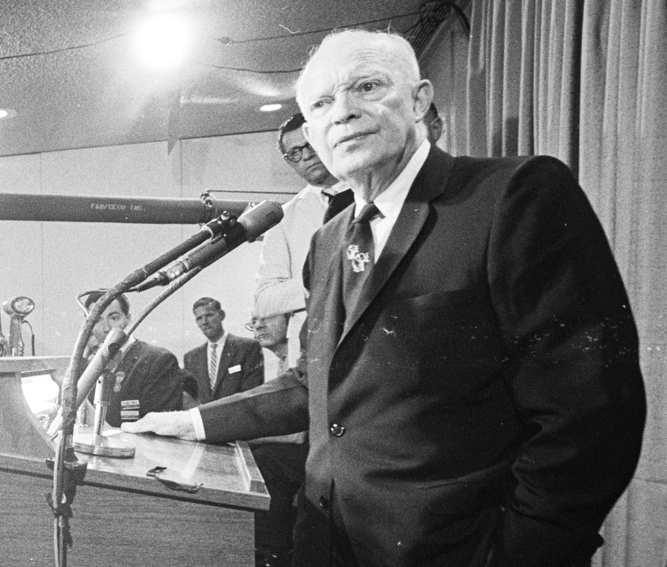 Dwight Eisenhower at 1964 RNC